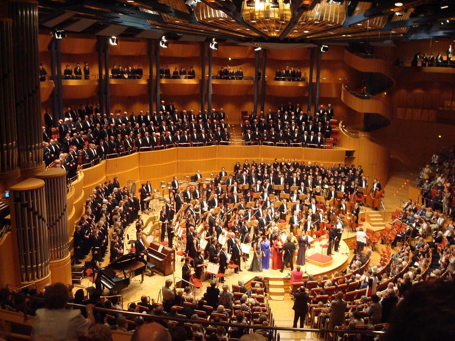 A performance of the 8th Symphony of Mahler in the Kölner Philharmonie. The orchestra is the Wuppertaler Sinfonieorchester, conducted by Heinz-Walter Florin. The choirs are: Kölner Domchor Deutz-Chor Köln Gürzenich-Chor Köln Philharmonischer Chor Köln Collegium Cantandi Solists: Sylvia Greenberg, Sopran Janice Dixon, Sopran Lisa Tjalve, Sopran Brigitte Pinter, Alt Susanna Frank, Alt Cesar Gutiérrez, Tenor Johannes Beck, Bariton Wilfried Staber, Bass